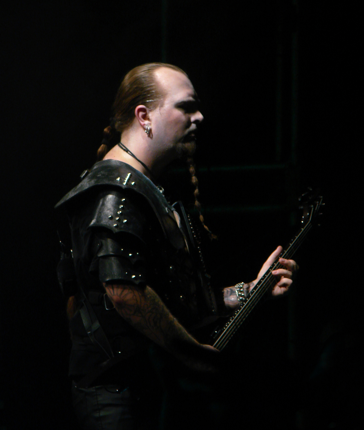 Dimmu Borgir,the Black Metal band from Norway, during their concert in Paris, the 4th of October 2007. Silenoz.